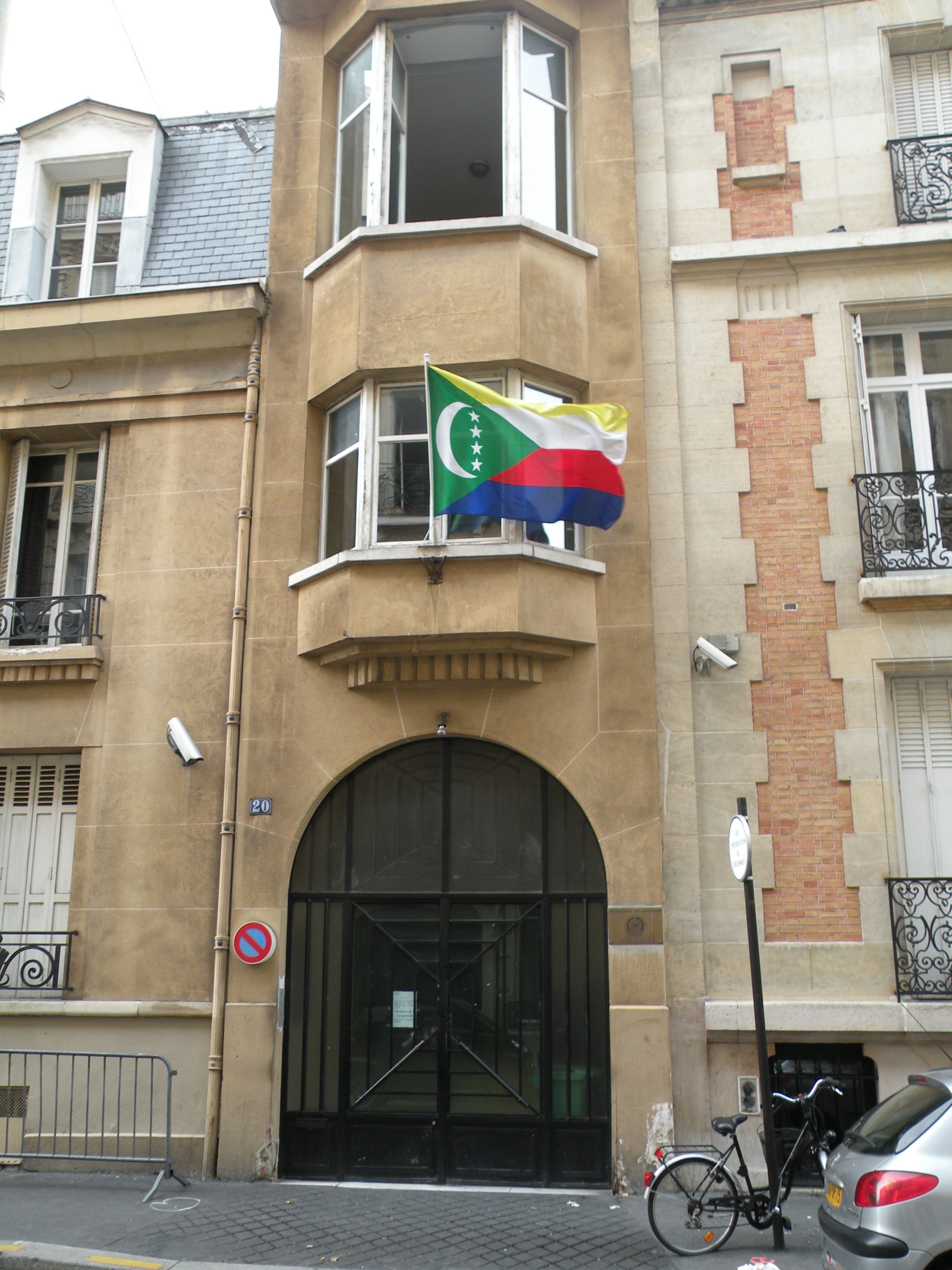 Comoran embassy in France, Paris.